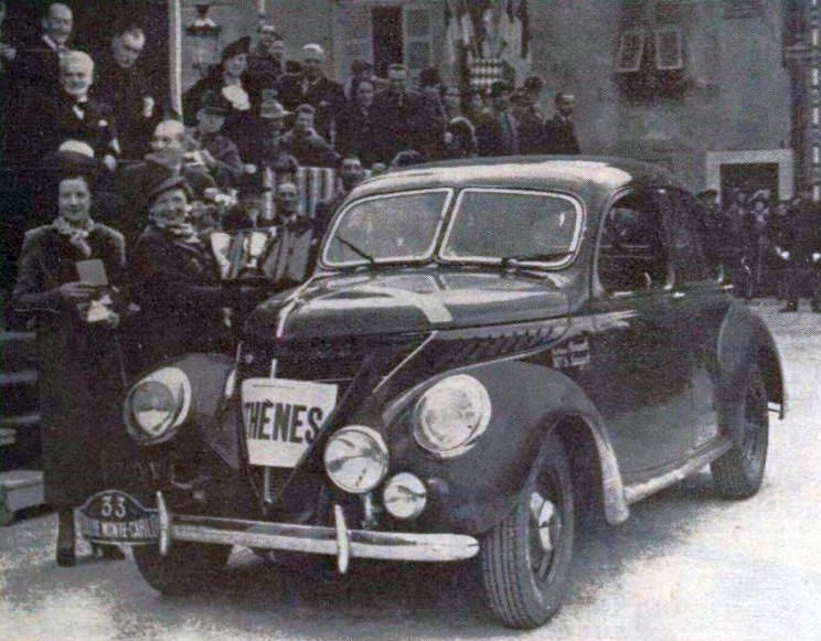 Entry #33 in the 1938 Monte Carlo was a Matford (based on Ford V8) entered by Germaine Rouault (left in picture) and Suzanne Largeot (to the right, probably). They ended 7th overall.[1]